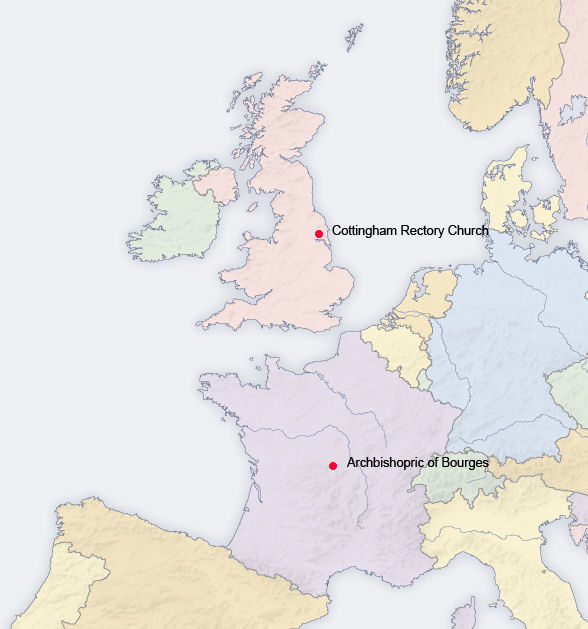 archbishop Andrew Forman's foreign benefices